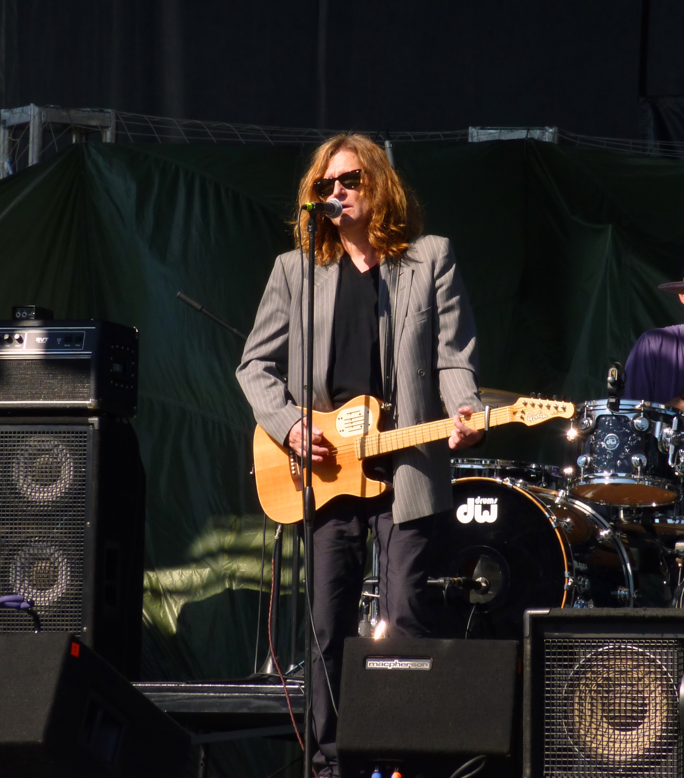 John Waite @ Sound Check before the Surf and Song Festival